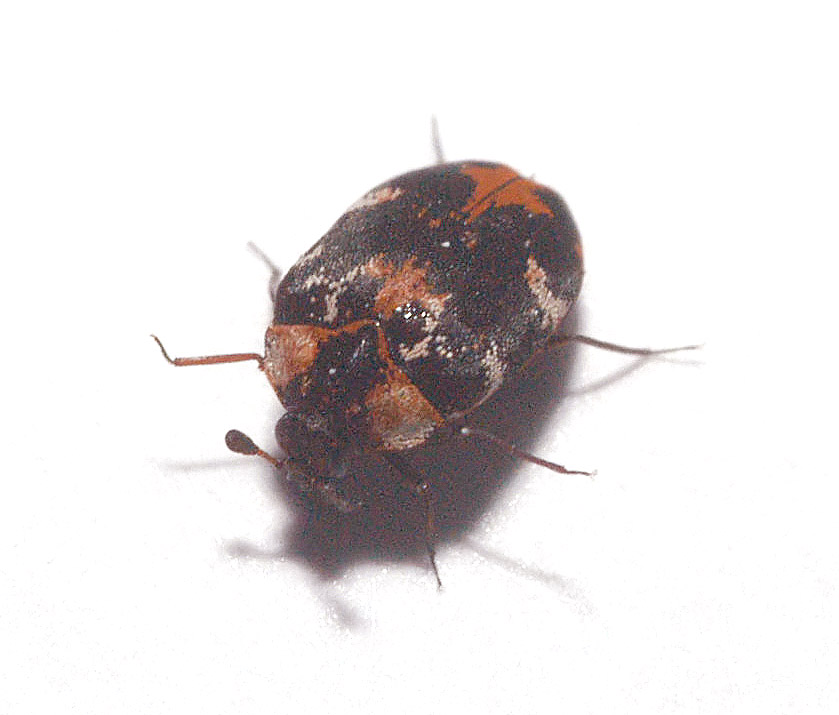 Description: Anthrenus scrophulariae